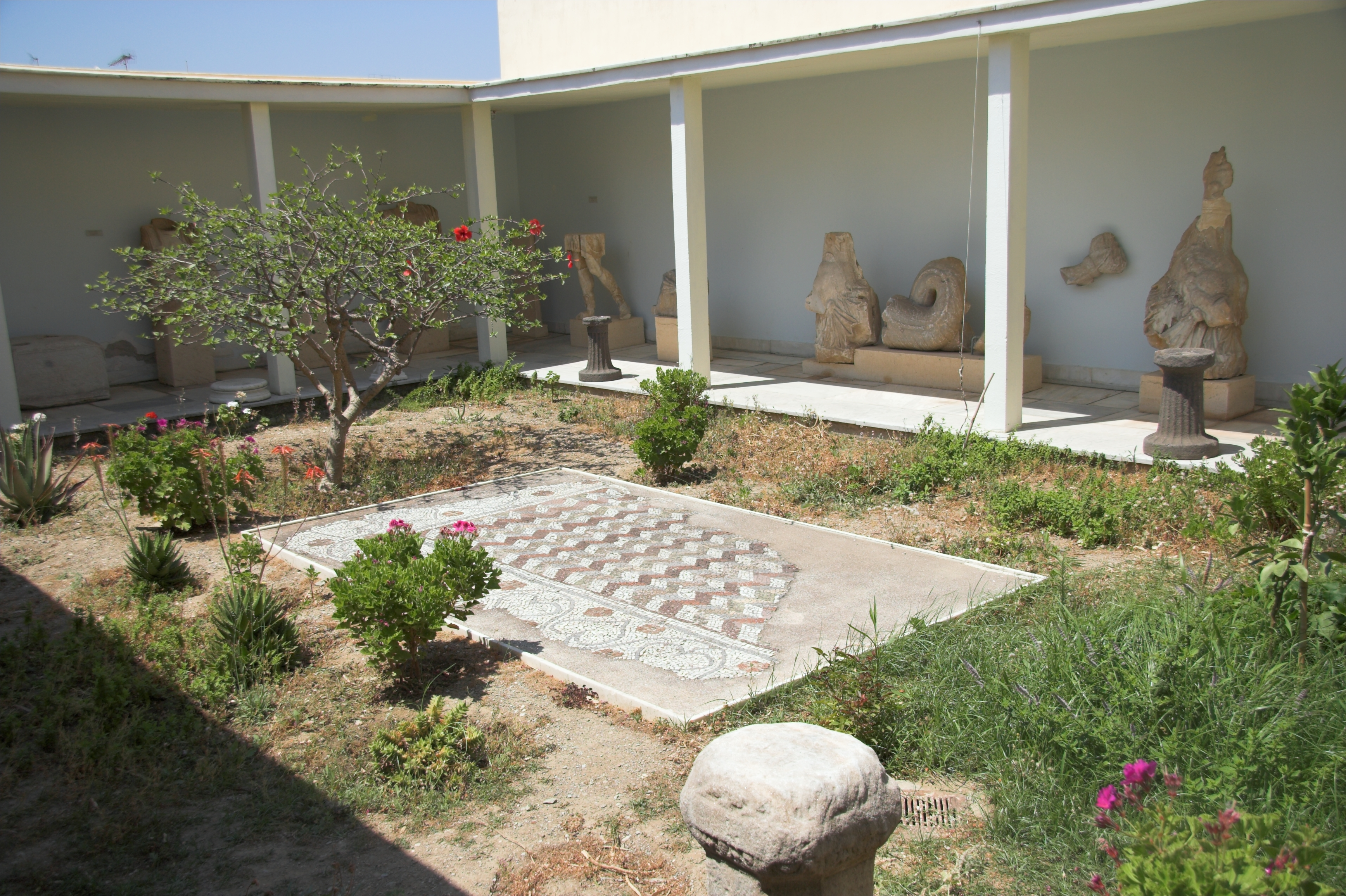 The courtyard of the Archaeological Museum on Tenos, with lapidary and mosaics.